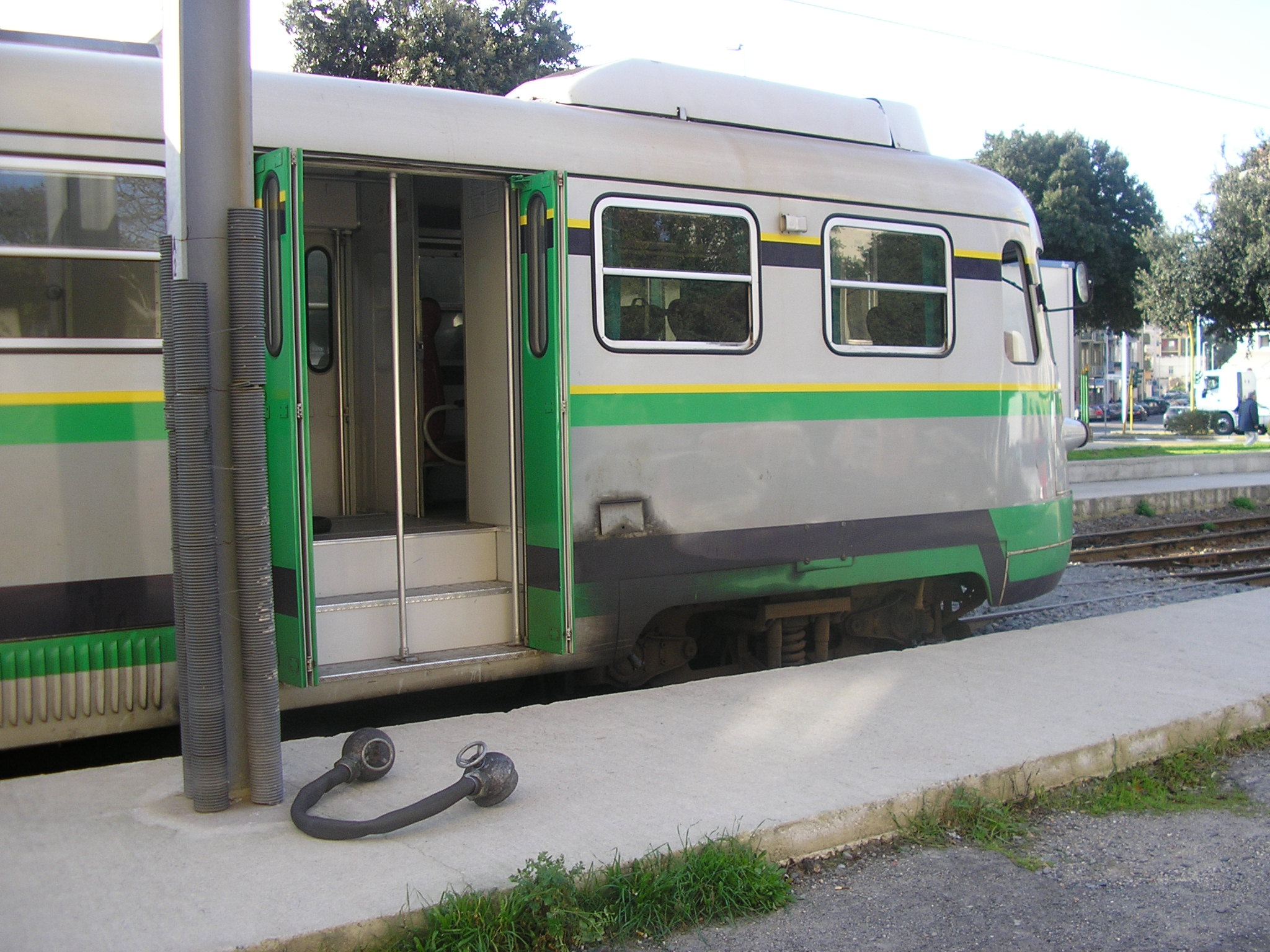 Diesel multiple unit ADe of Ferrovie della Sardegna waiting in the railway halt (at the time of the photo) of largo Gennari in Cagliari, Sardinia, Italy